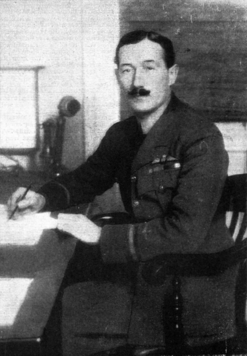 Brigadier-General E M Maitland CMG DSO Director of Airship Equipment